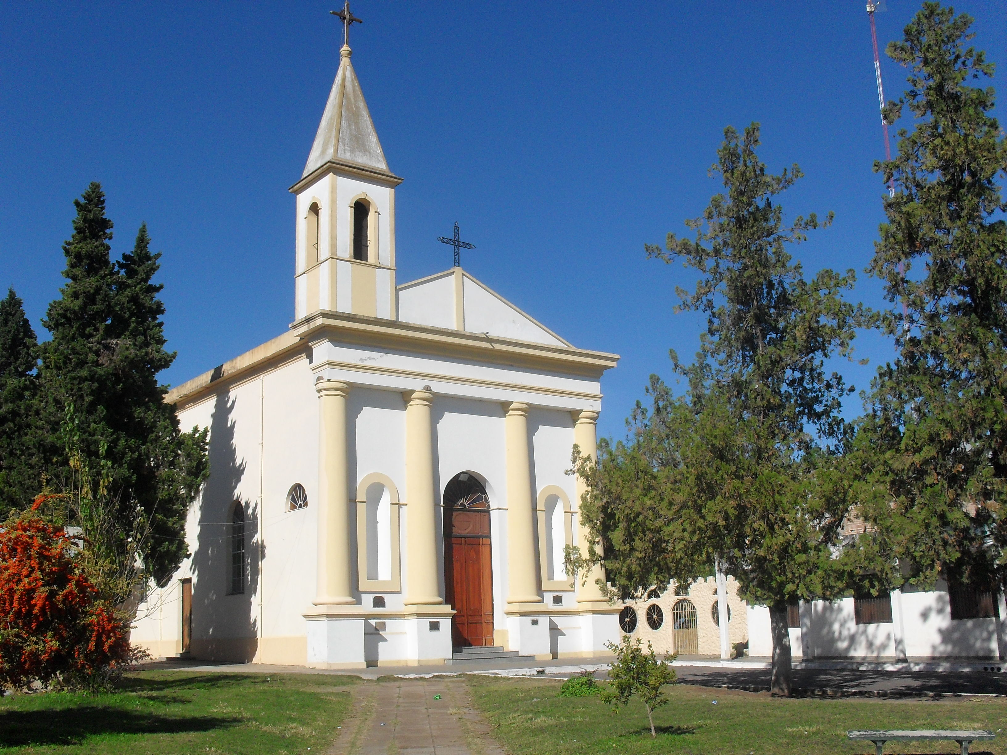 Templo en Honor a San Benito Abad